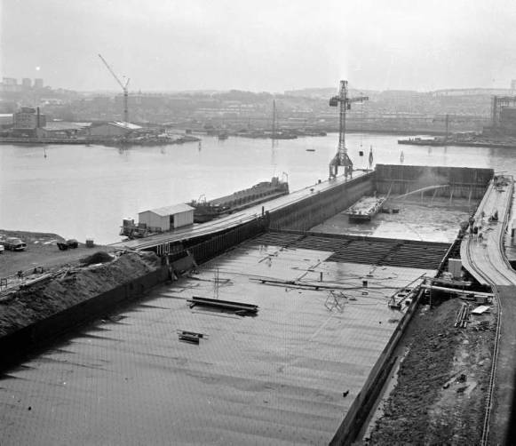 Contruction of the Tingstad Tunnel in Gothenburg 1964.